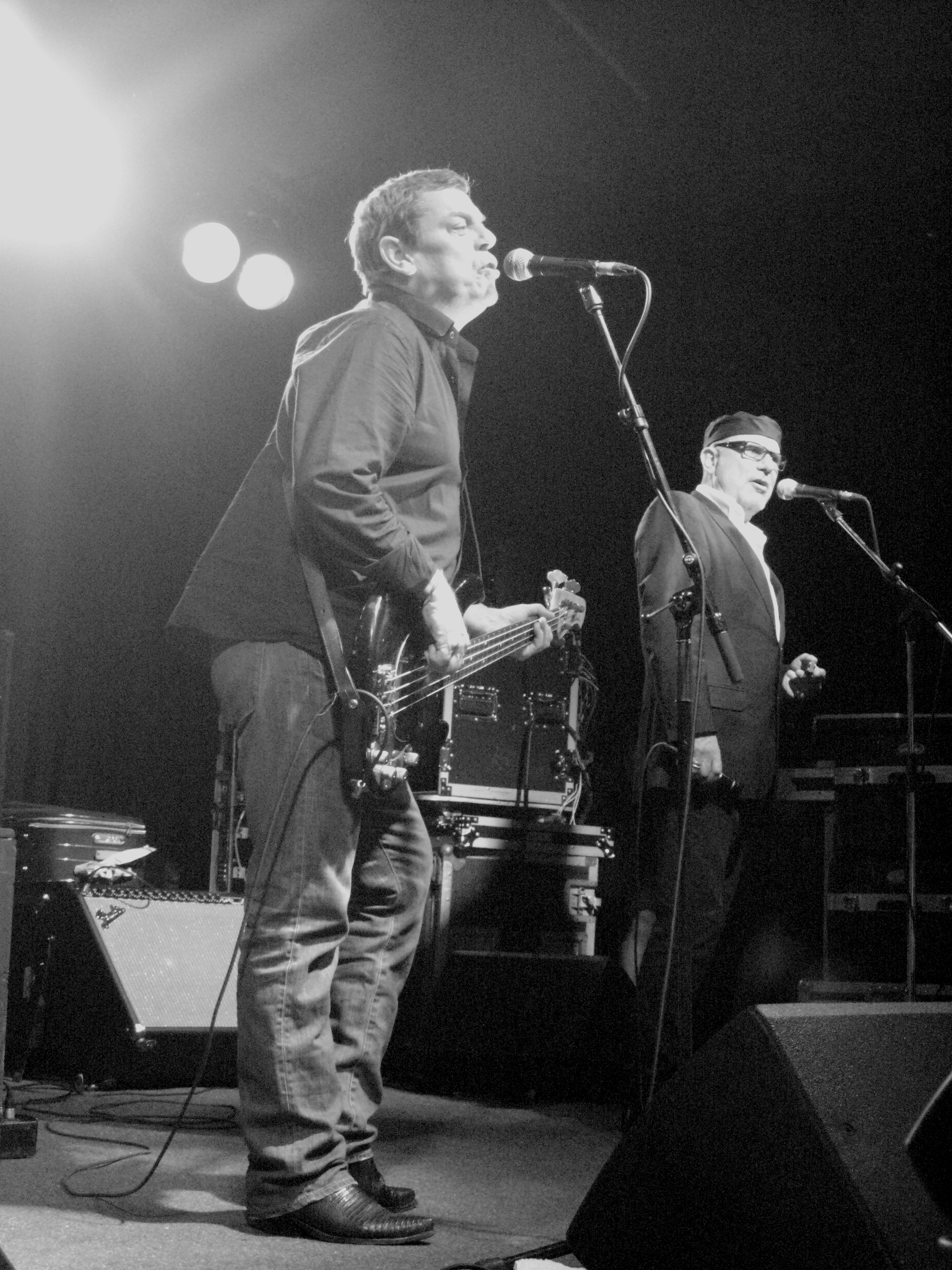 Gerry McAvoy & Mark Feltham, formerly of the Rory Gallagher Band, now members of Nine Below Zero